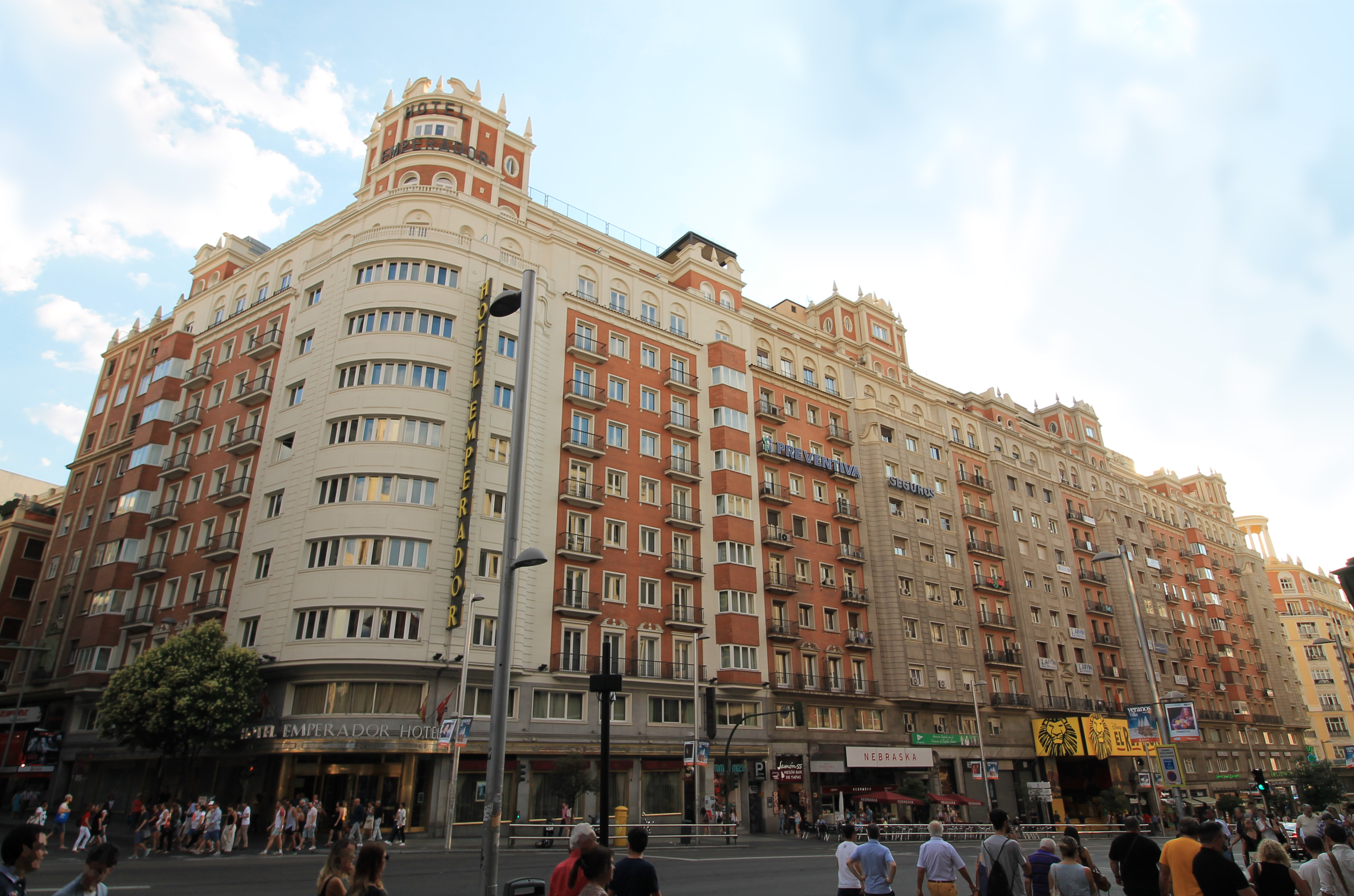 Façade of Los Sótanos Building in Madrid (Spain)..